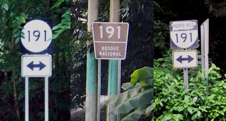 Puerto Rico Highway 191 signs in El Yunque National Forest, northeastern Puerto Rico. A USDA Forest Service Forest Highway, and forest road scenic drive, through the only tropical U.S. National Forest.